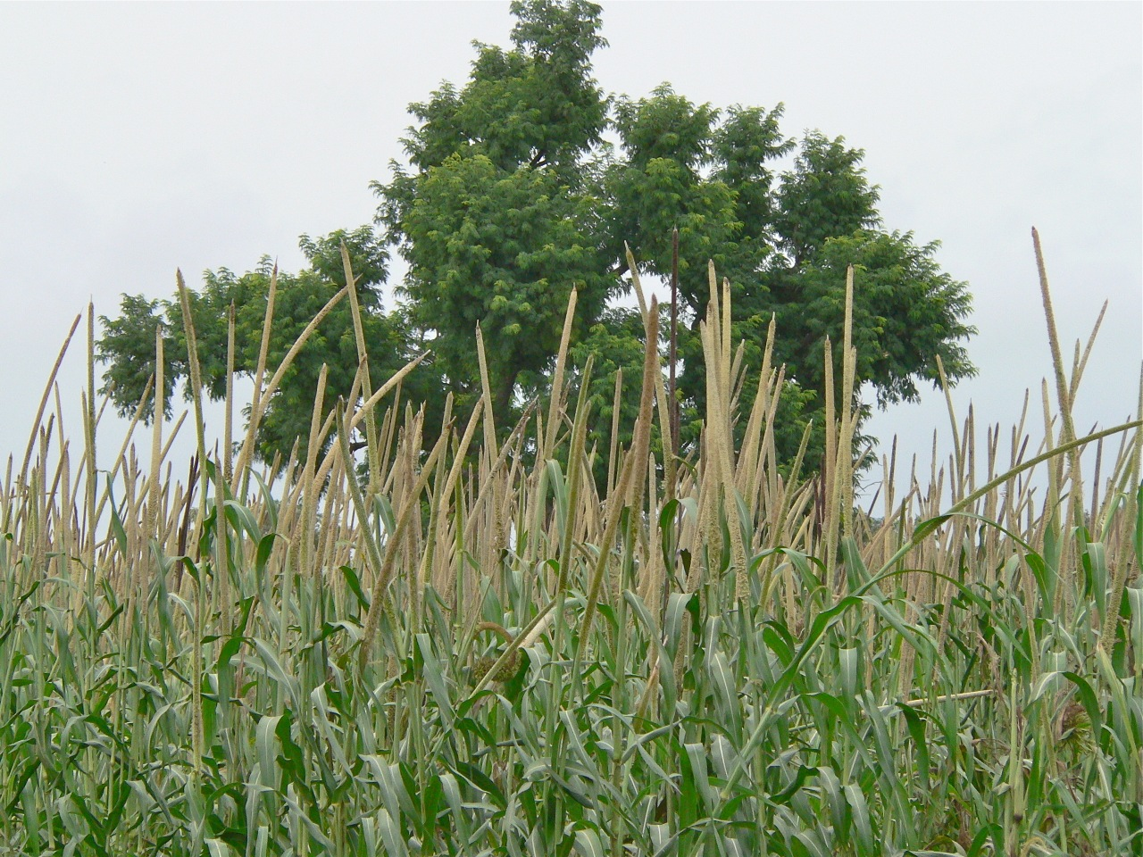 Millet plants (Pennisetum glaucoma) near Bodjikali, Benin